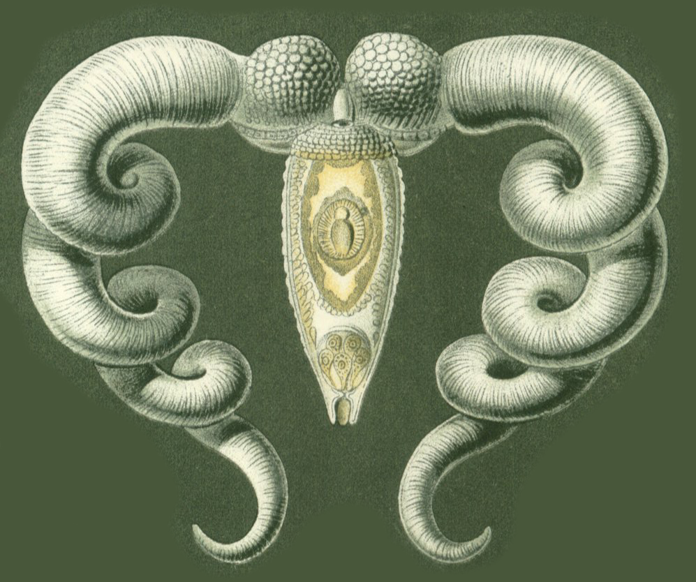 Cercaria bucephalus (Ercolani) / Gasterostomum fimbriatum (Siebold) =? Bucephalus polymorphus Baer, 1827, cercaria larva from above